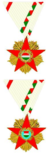 Order of Merit of the People's Republic of Hungary